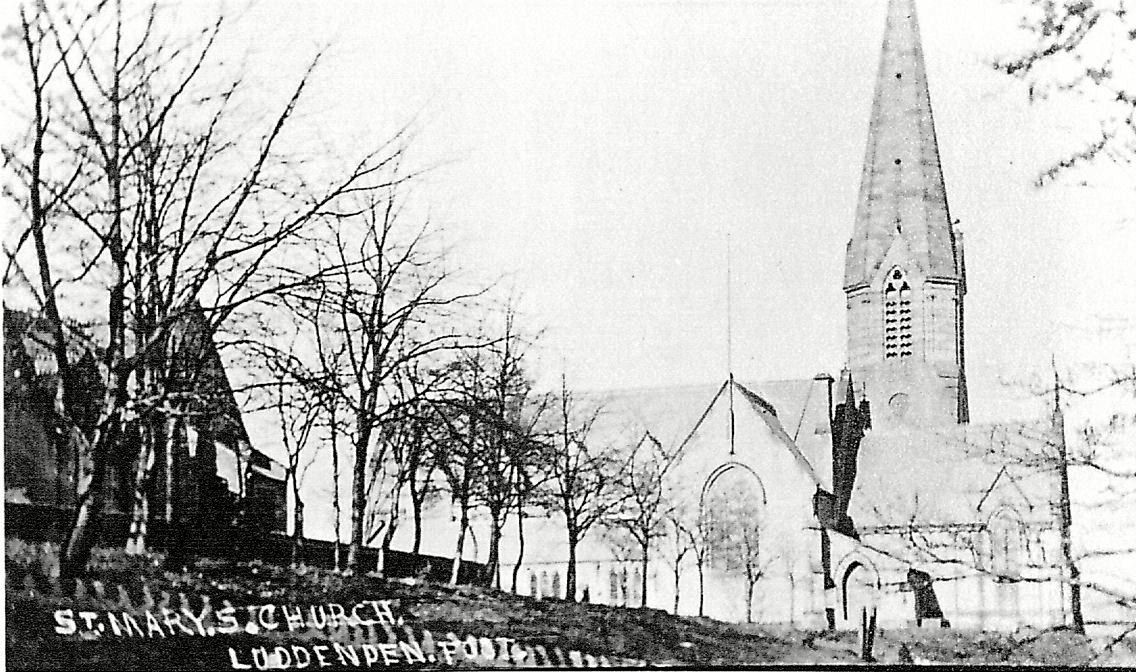 Postcard of the former church of St Mary the Virgin, Luddendenfoot, Calderdale, West Yorkshire, England. Designed by Parr & Strong, and consecrated in 1873. Demolished 1970s.